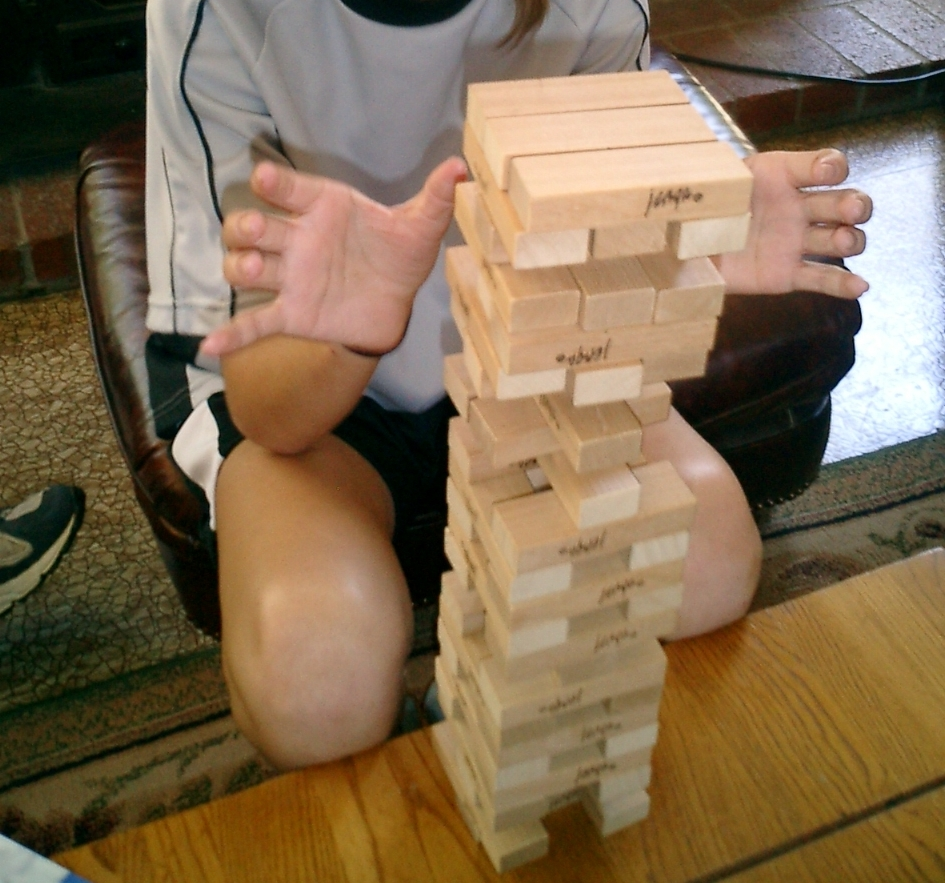 A game of [Jenga](r) in progress.